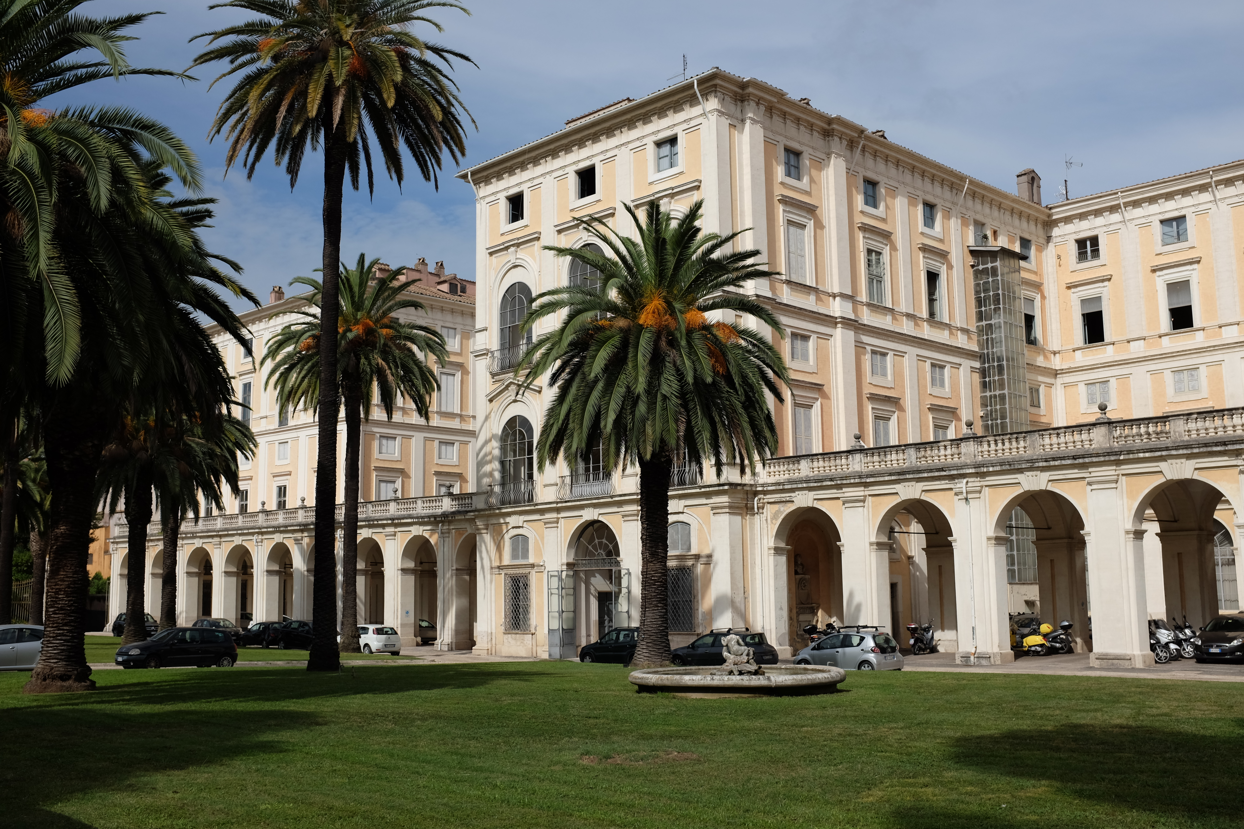 The rear entrance of the Palazzo Corsini in Rome, seen from an angle.